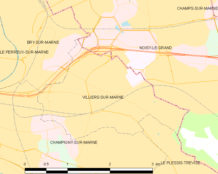 Map of French municipality Villiers-sur-Marne